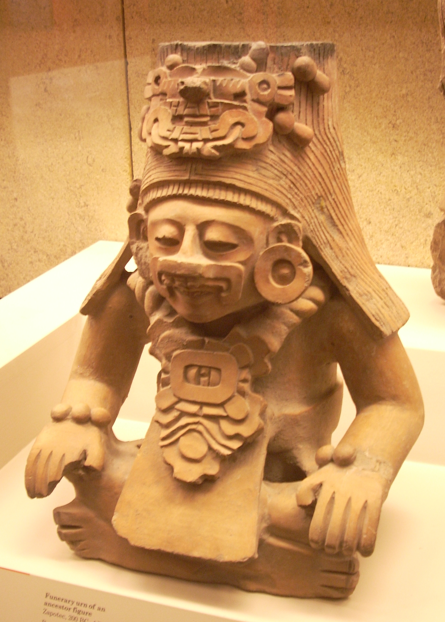 Zapotec funerary urn in the British Museum. 200 BC - 800 AD.